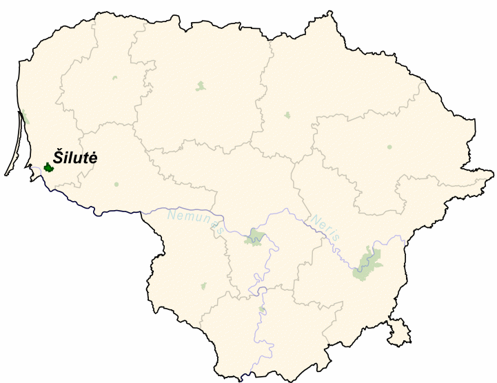 Šilutė on the map of Lithuania